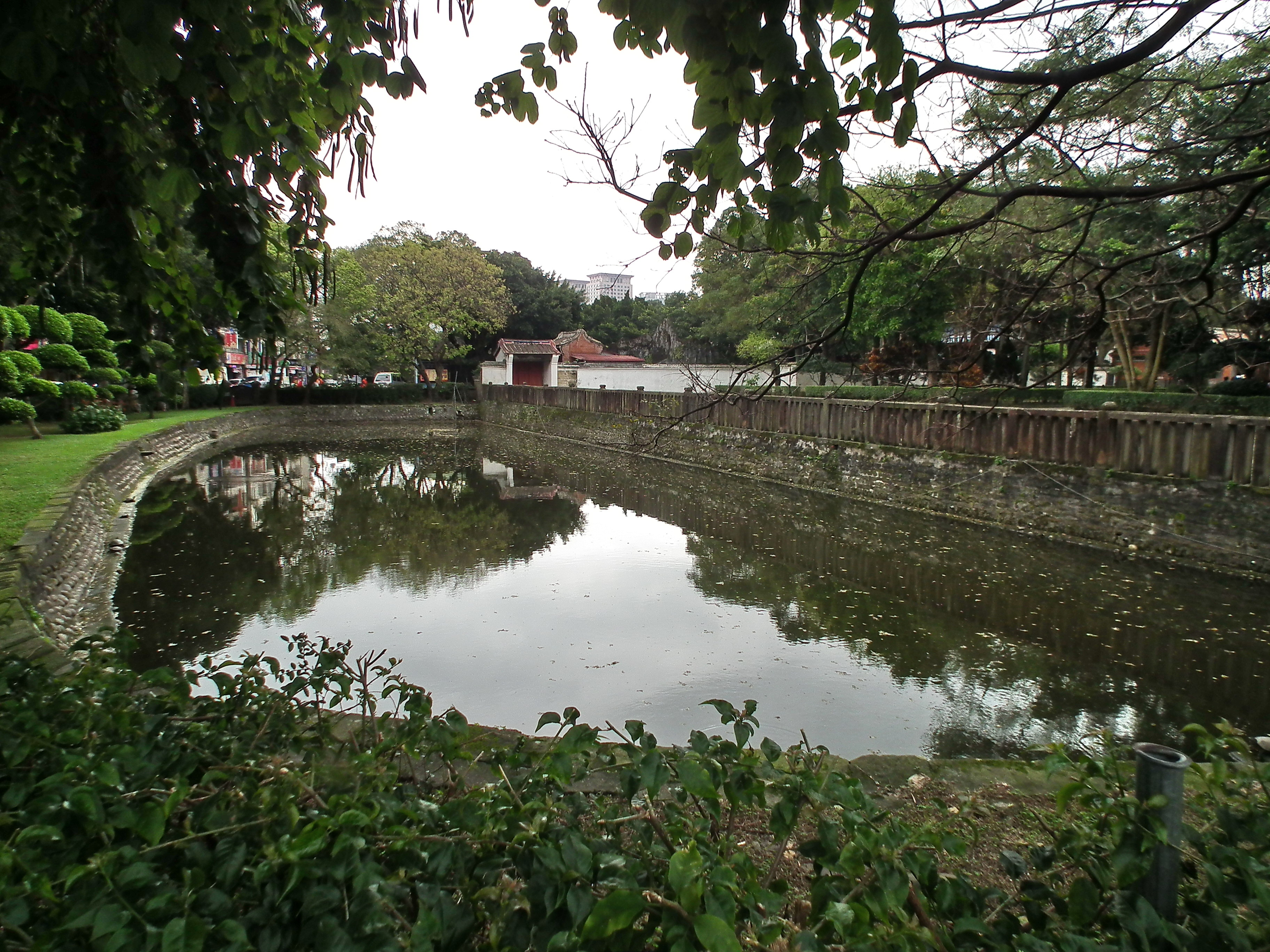 Half-moon Pond 半月池